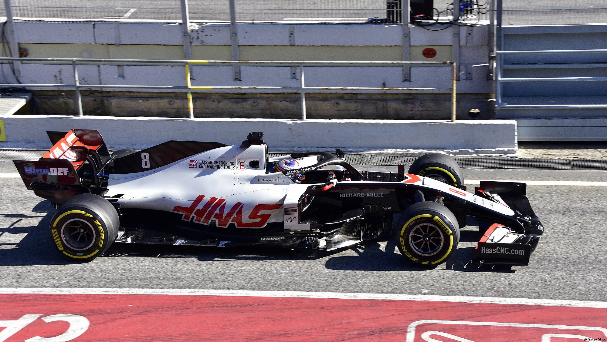 Romain Grosjean driving the Haas VF-20 during the pre-season tests in Barcelona.